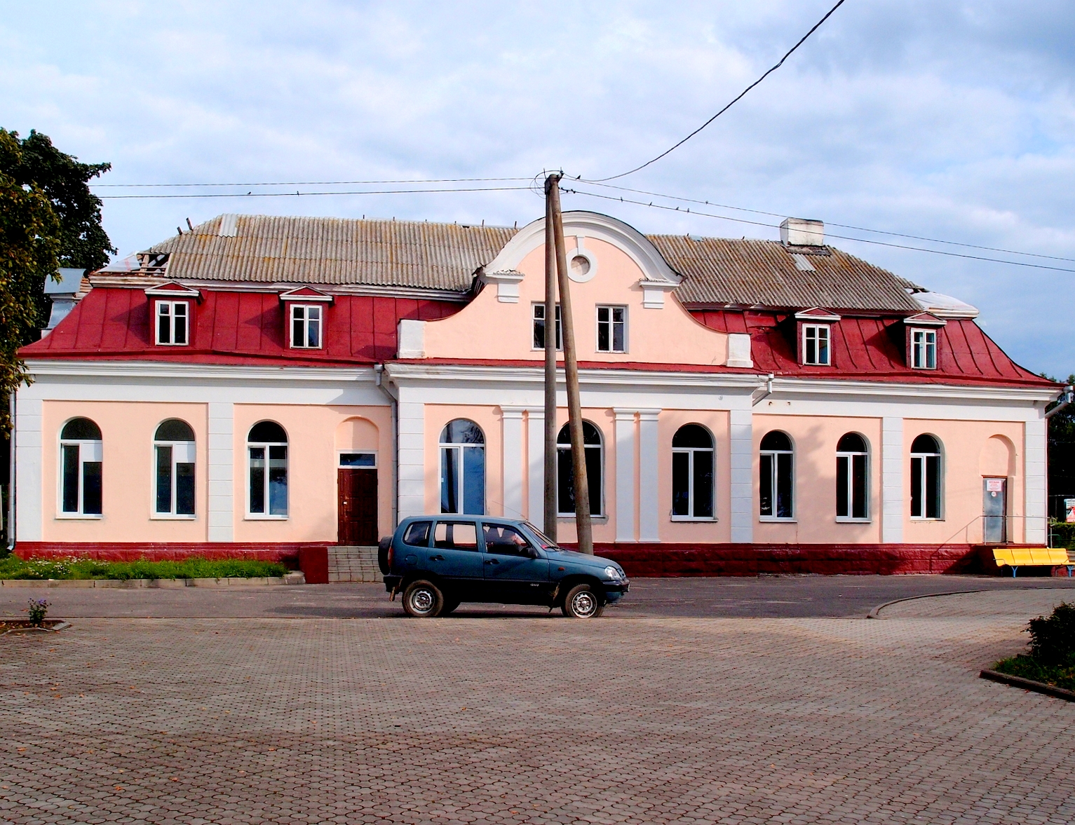 Palačany train station, Belarus.